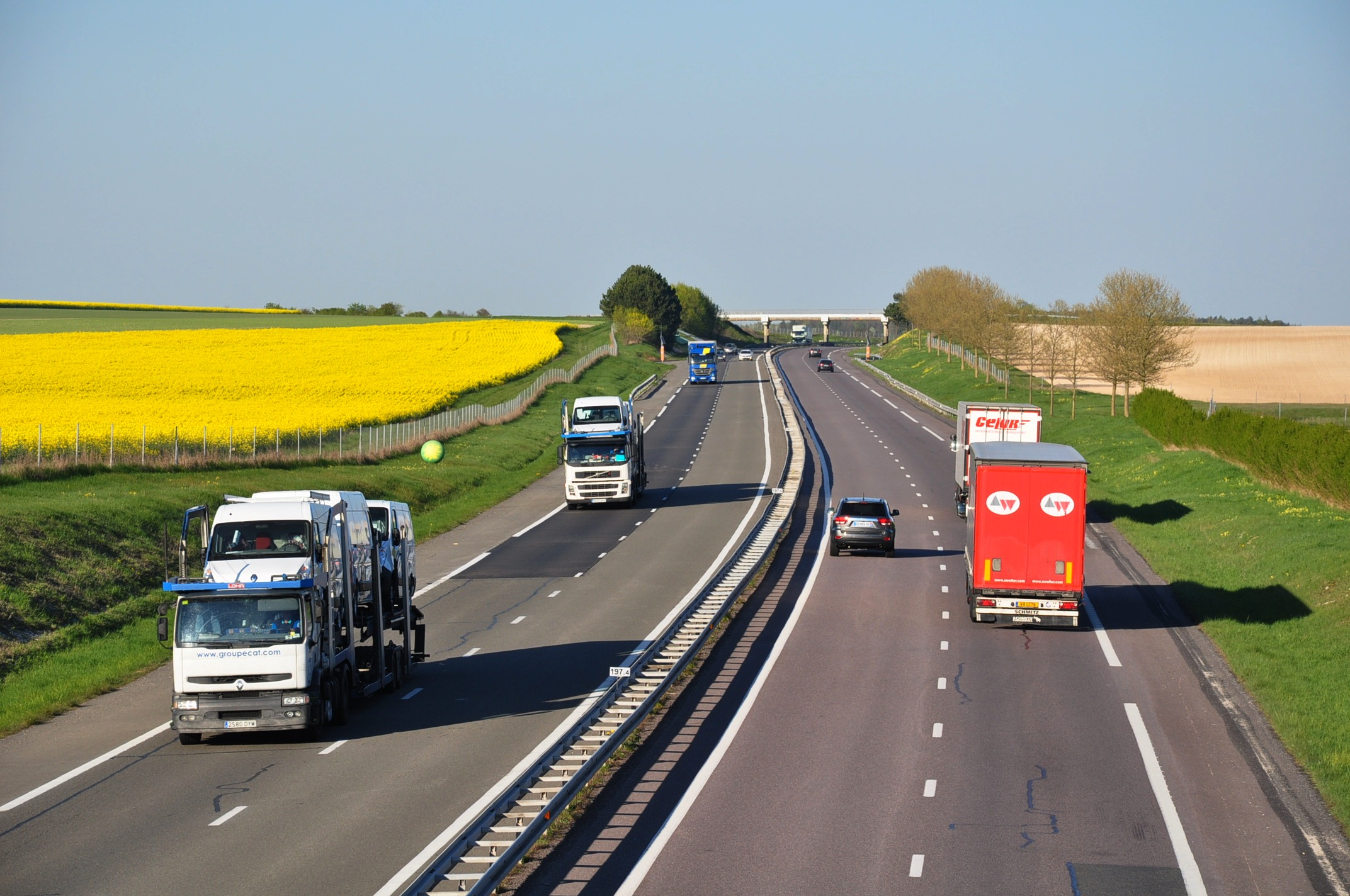 The Motorway A4/E50 near Auve (Marne department, northeastern France).